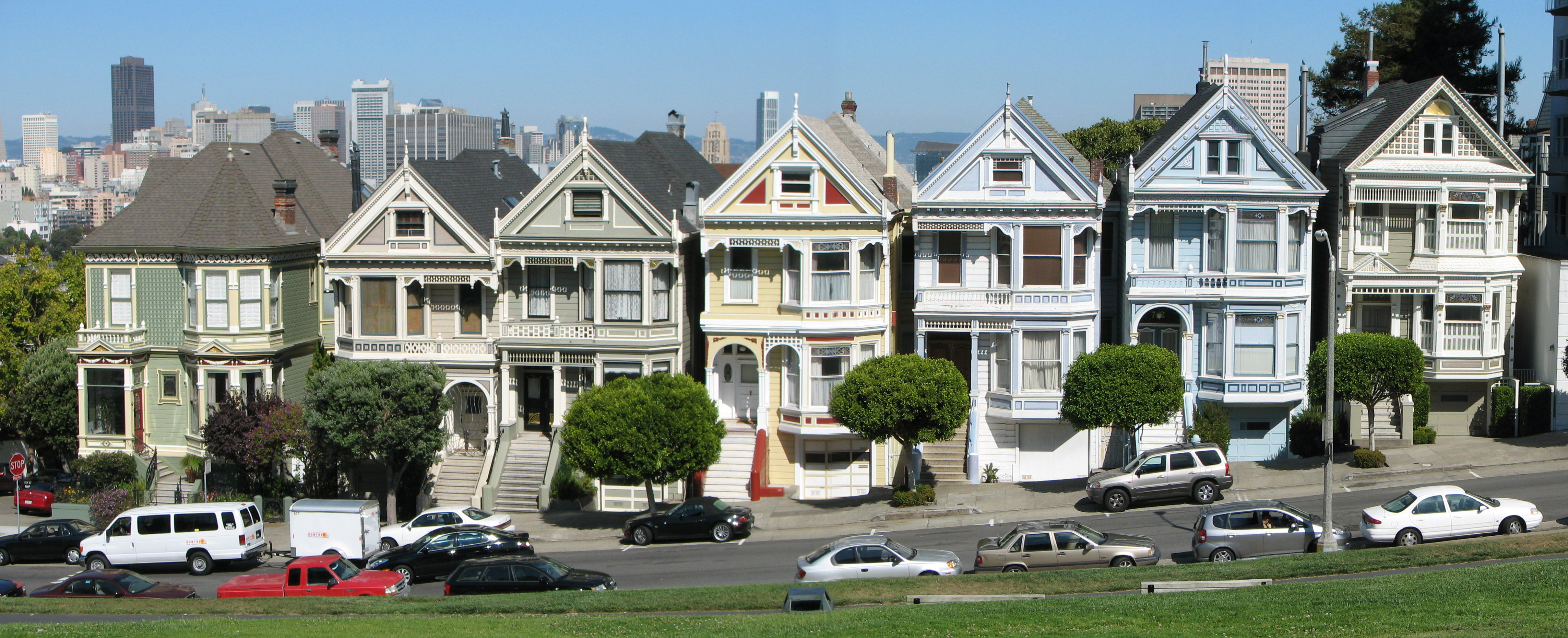 Painted Ladies, Alamo Square, San Francisco, California, USA